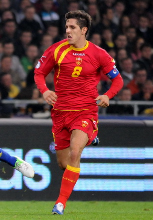 Montenegrin football player Stevan Jovetić during 2014 World Cup qualifier against Ukraine